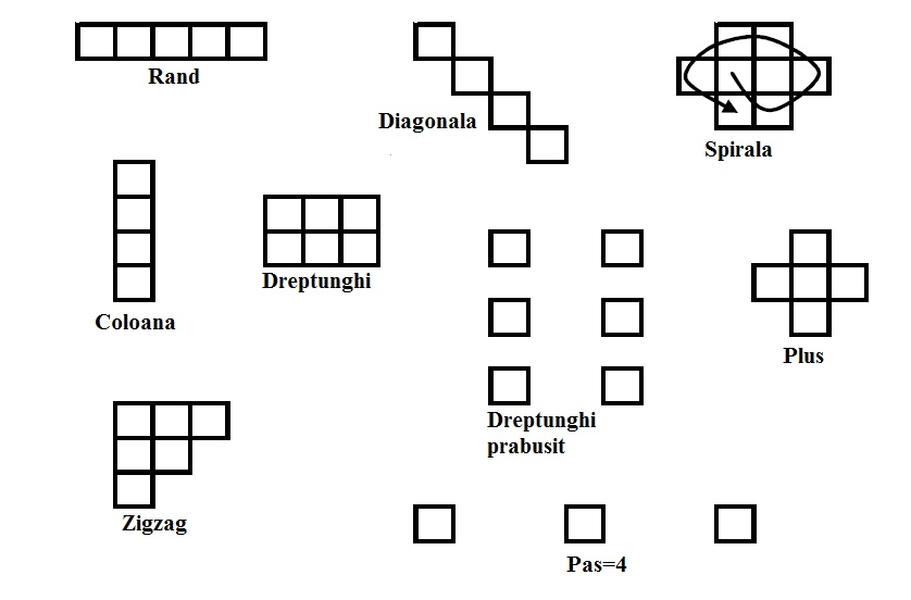 Format acces